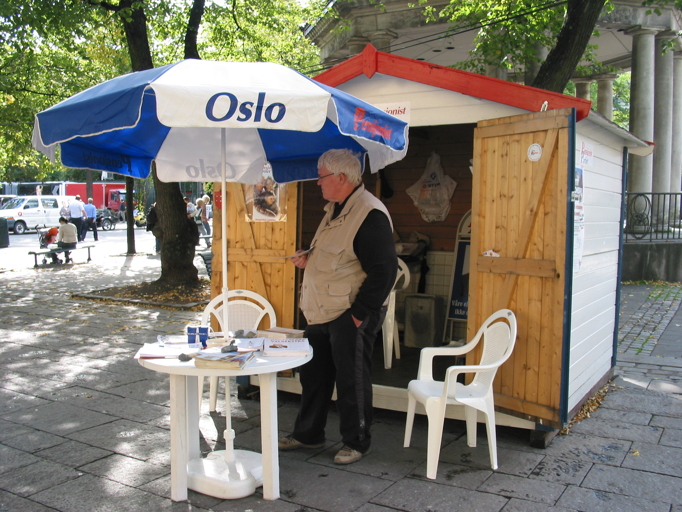 Pensioners Party (Pensjonistpartiet) campaign booth in Karl Johans gate, Oslo ahead of the 2009 Norwegian election.